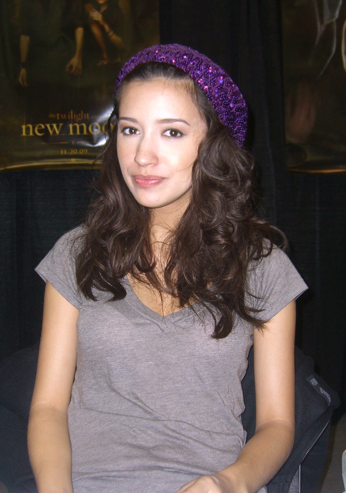 Actor Christian Serratos at the Big Apple Convention in Manhattan. Photographed by Luigi Novi. This photo may only be used if the photographer is properly credited. (See Licensing information below.)